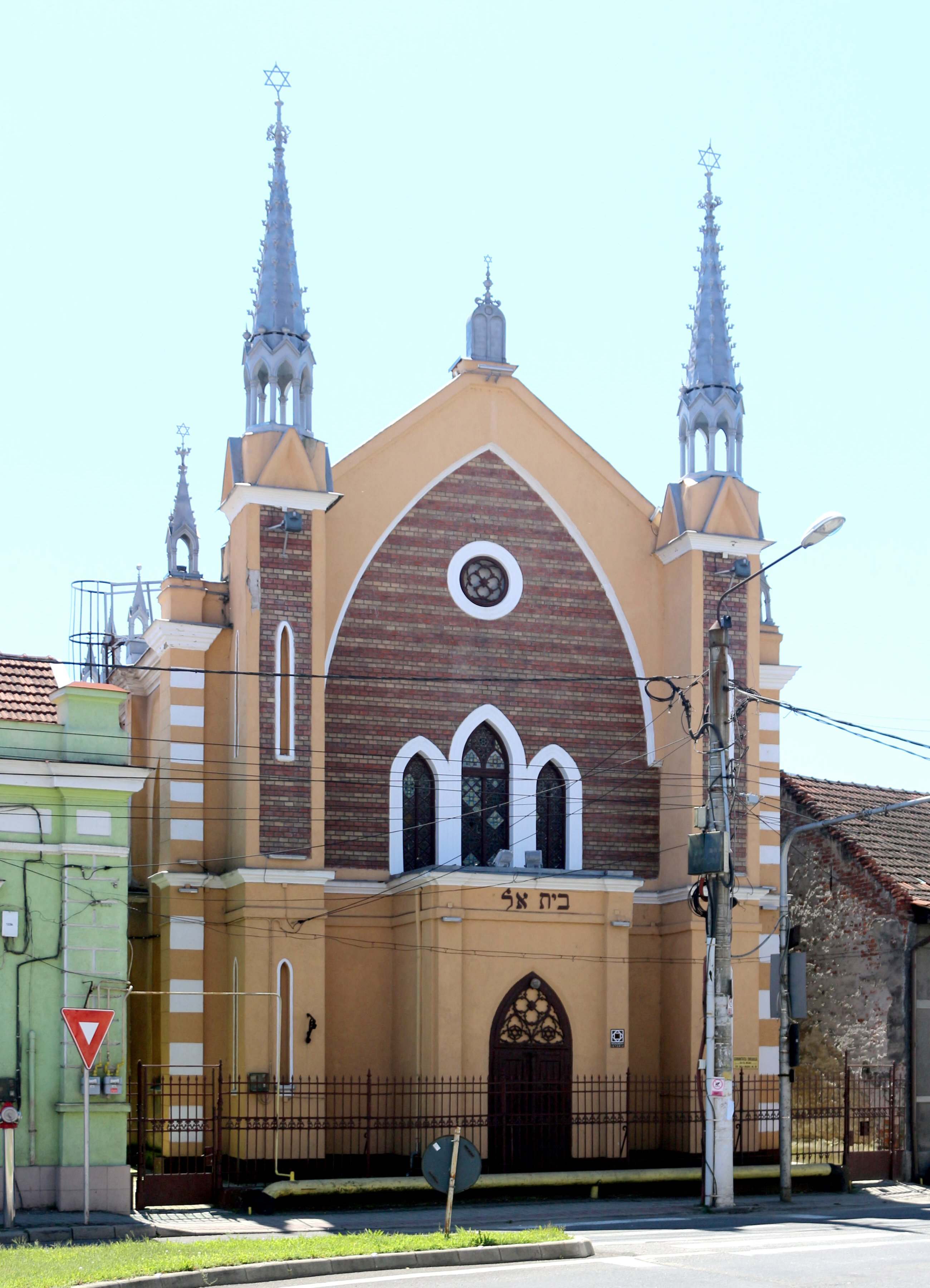 The synagogue, Orșovei St., no. 2, Caransebeș, Romania, built 1894.